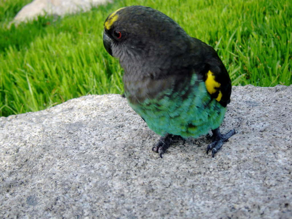 Meyer's Parrot (Poicephalus meyeri); female